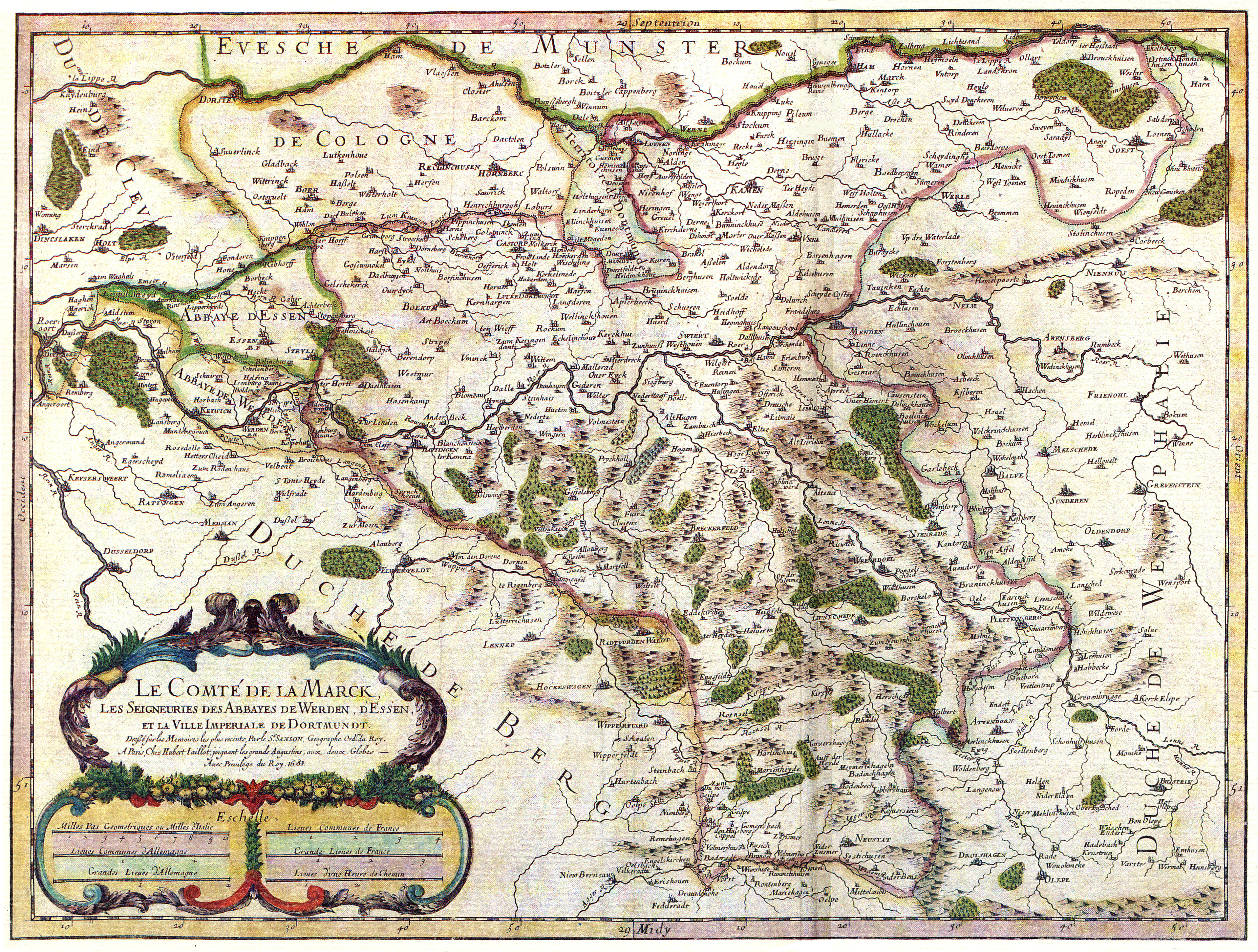 Map of Grafschaft Mark, Germany, 1681, by Nicolas Sanson